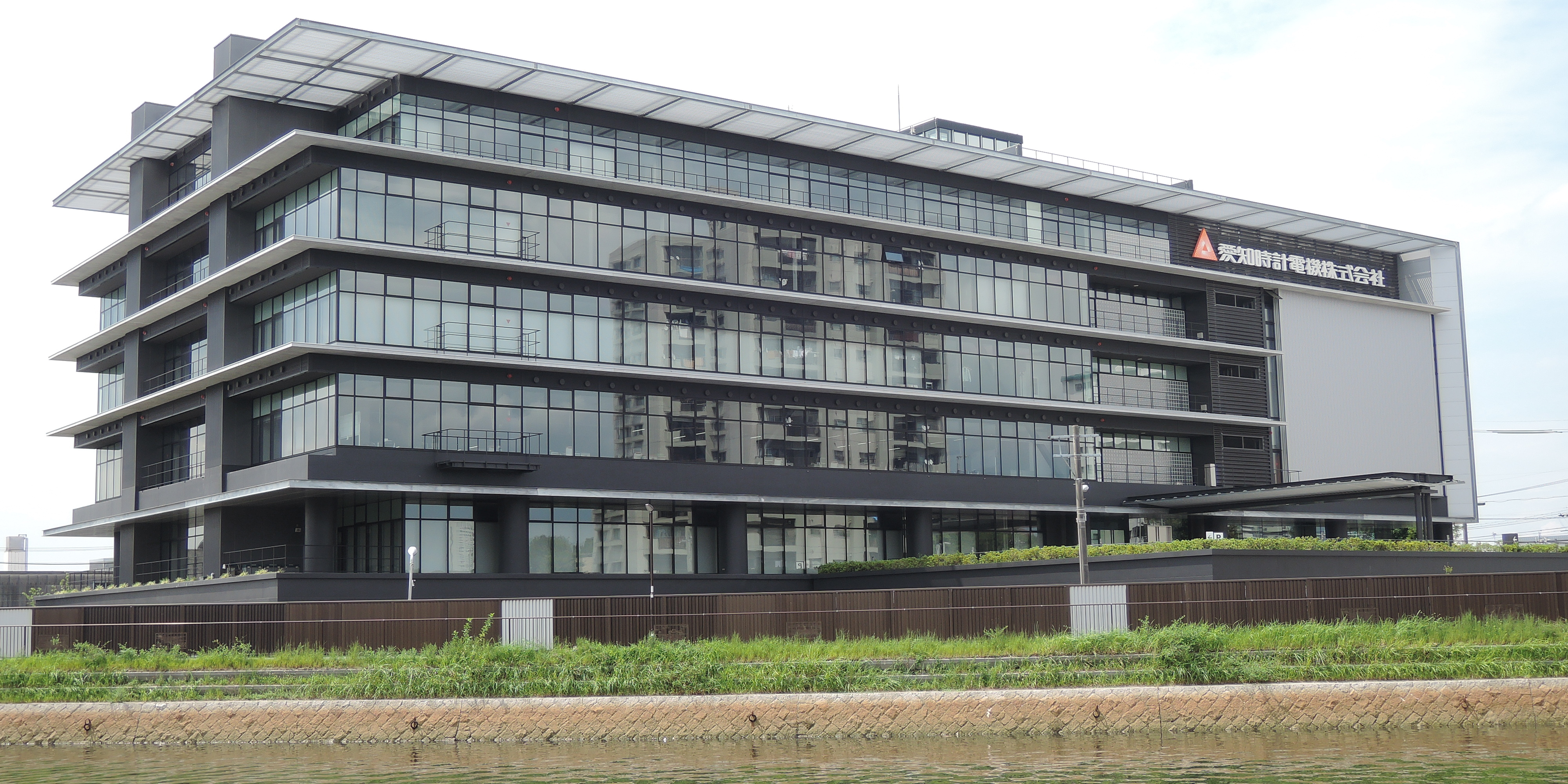 Headquarters of Aichi Tokei Denki Co.,Ltd,Aichi prefecture,Japan